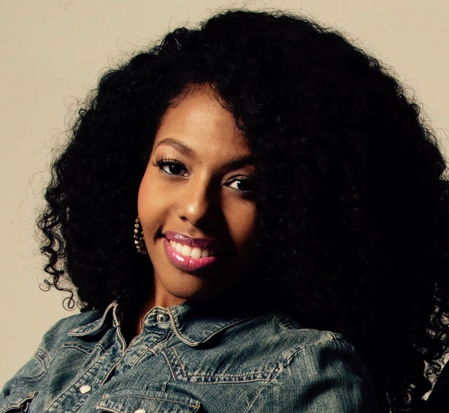 Sony ATV Grammy nominated Singer/Songwriter for worldwide multiplatinum selling artists...Michael Jackson, Whitney Houston, Kelly Rowland, Sofia Reyes, Charlie Wilson, Jaheim to name a few.